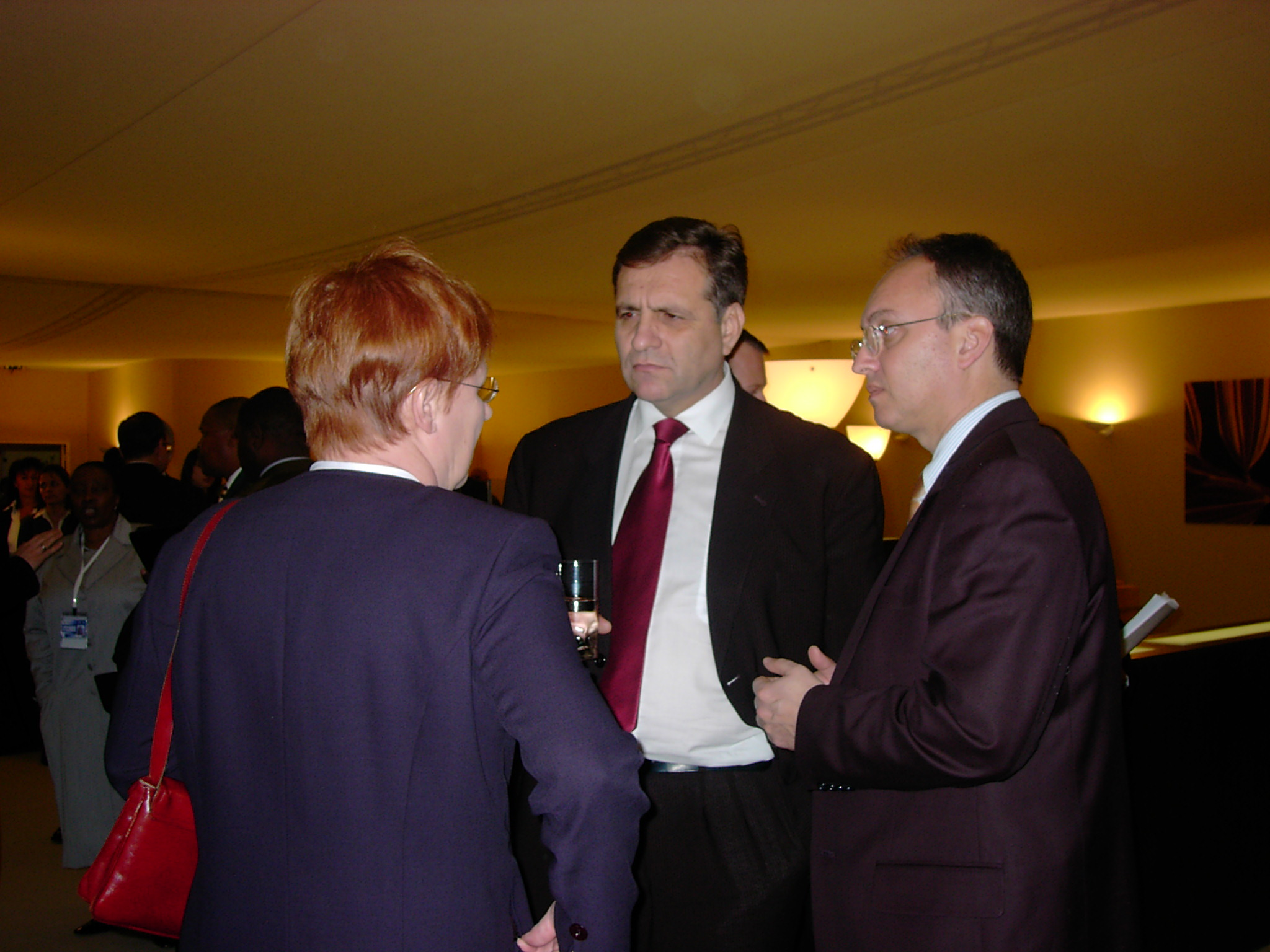 President Trajkovski, Ambassador Jolevski, and President Halonen